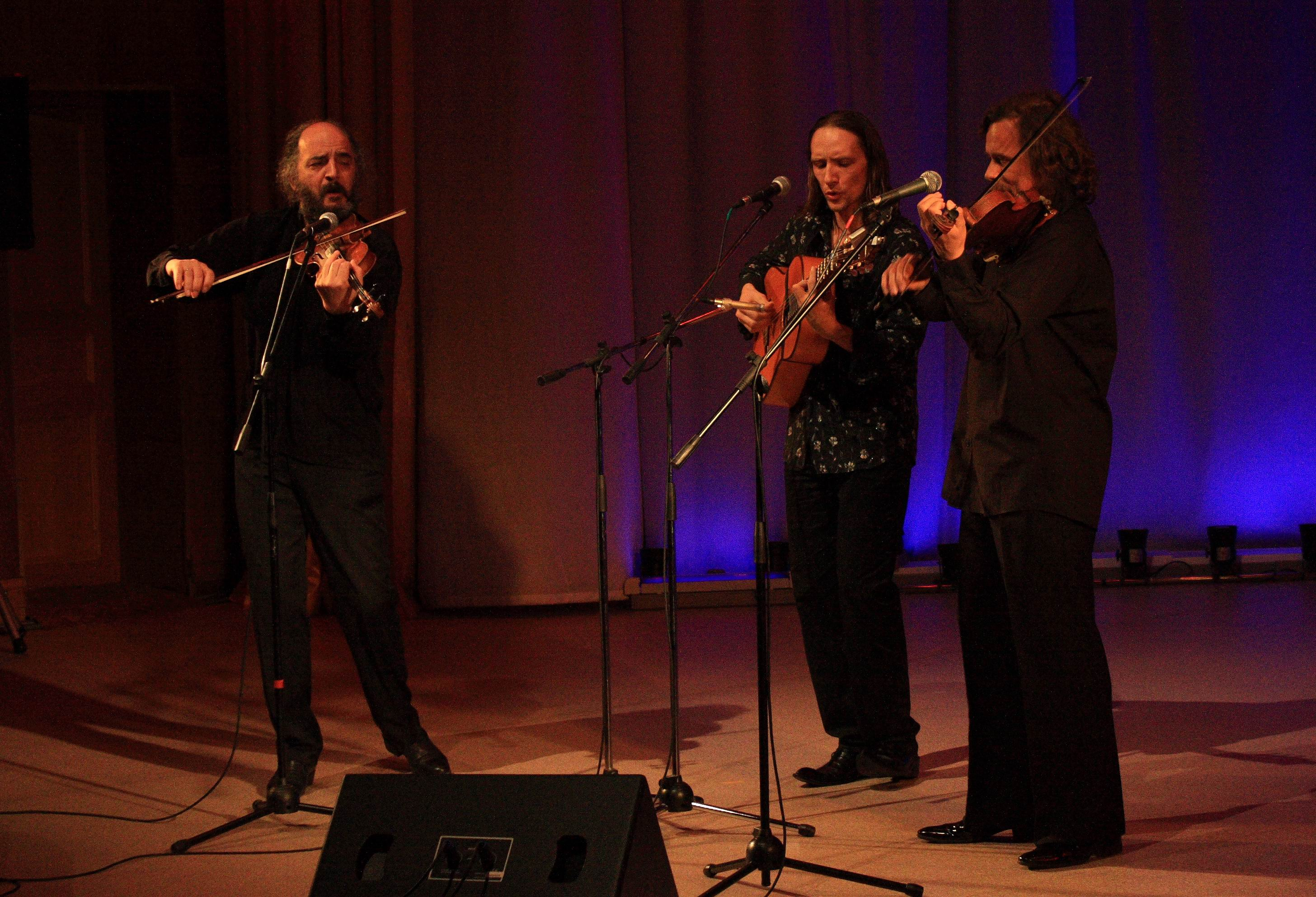 Loyko (band)